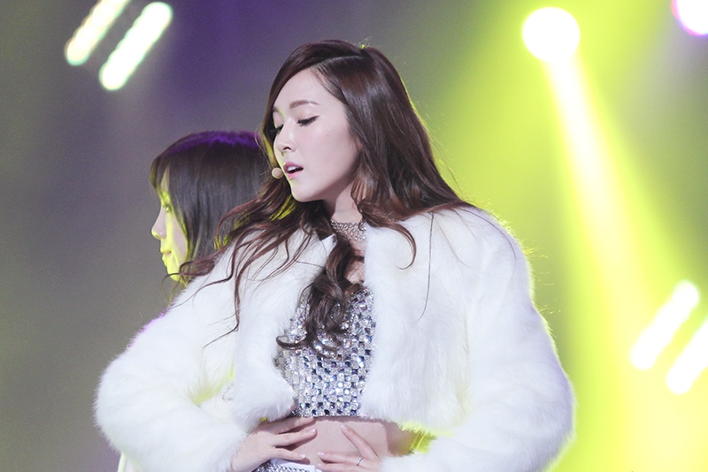 Jessica Jung at MBC Gayo Daejejeon on December 31, 2013.